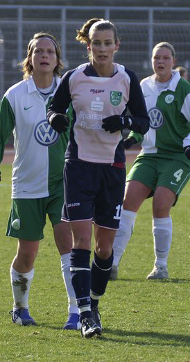 Simone Laudehr